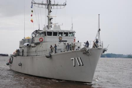 KRI Pulau Rengat 711 Minehunter